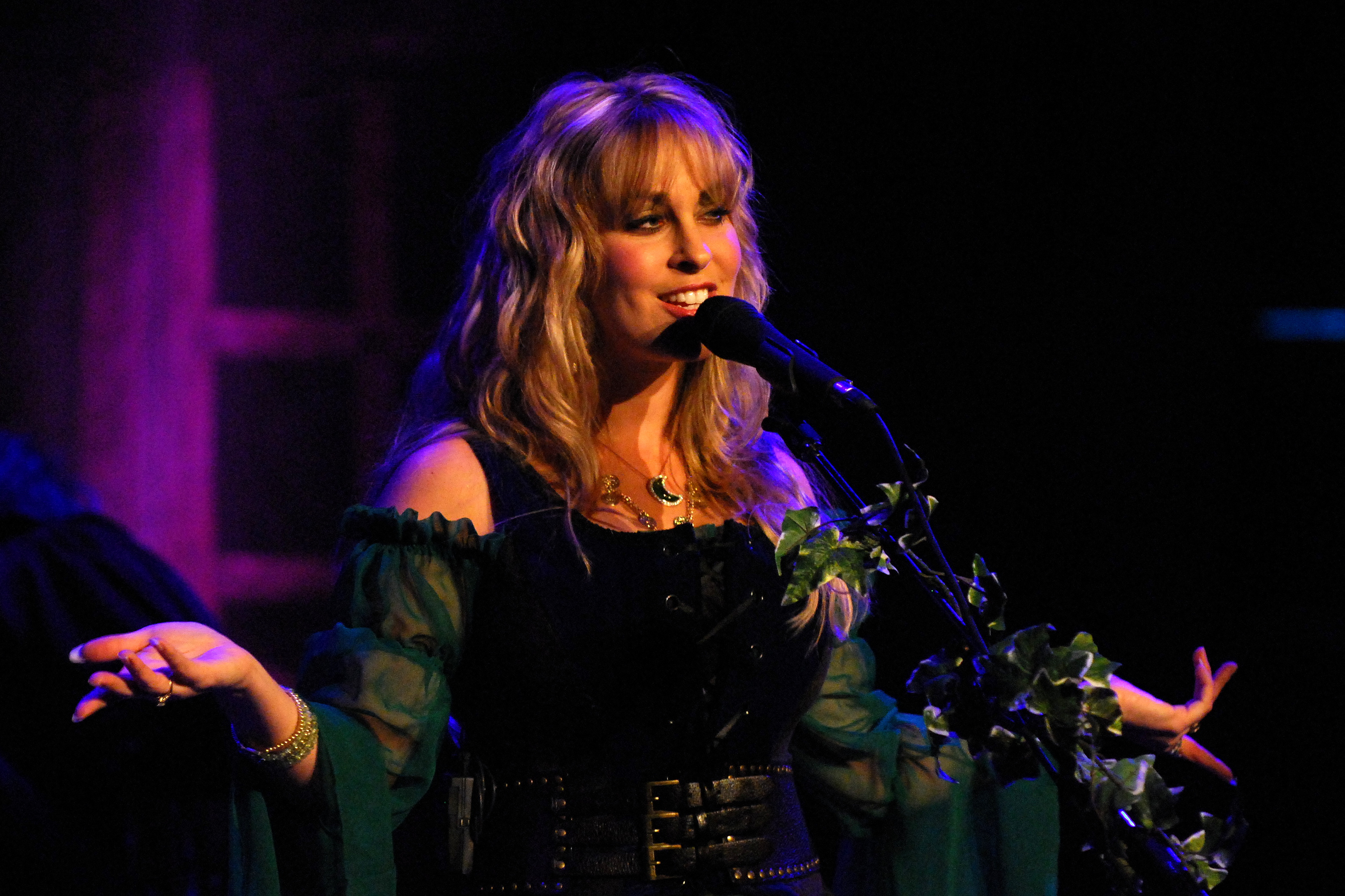 Candice Night performing in 2009 with Blackmores's Night. House of Blues, Chicago, IL, USA; October 17, 2009.